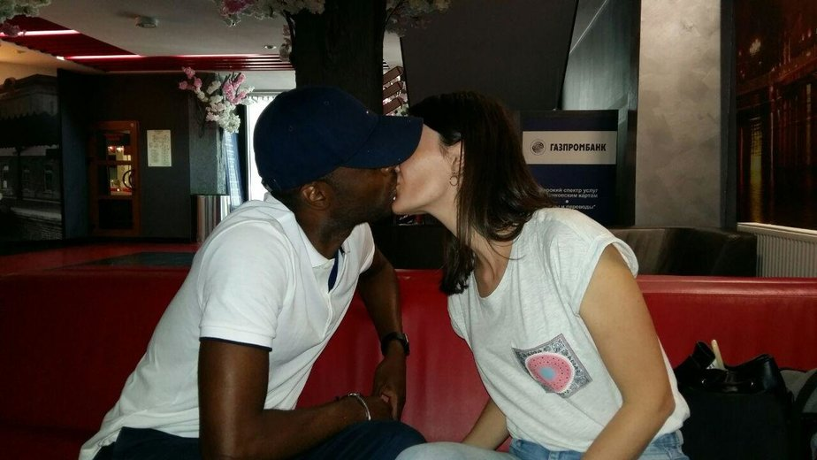 Anthony (Nigeria) and Ana (Croatia) at the World Cup 2018